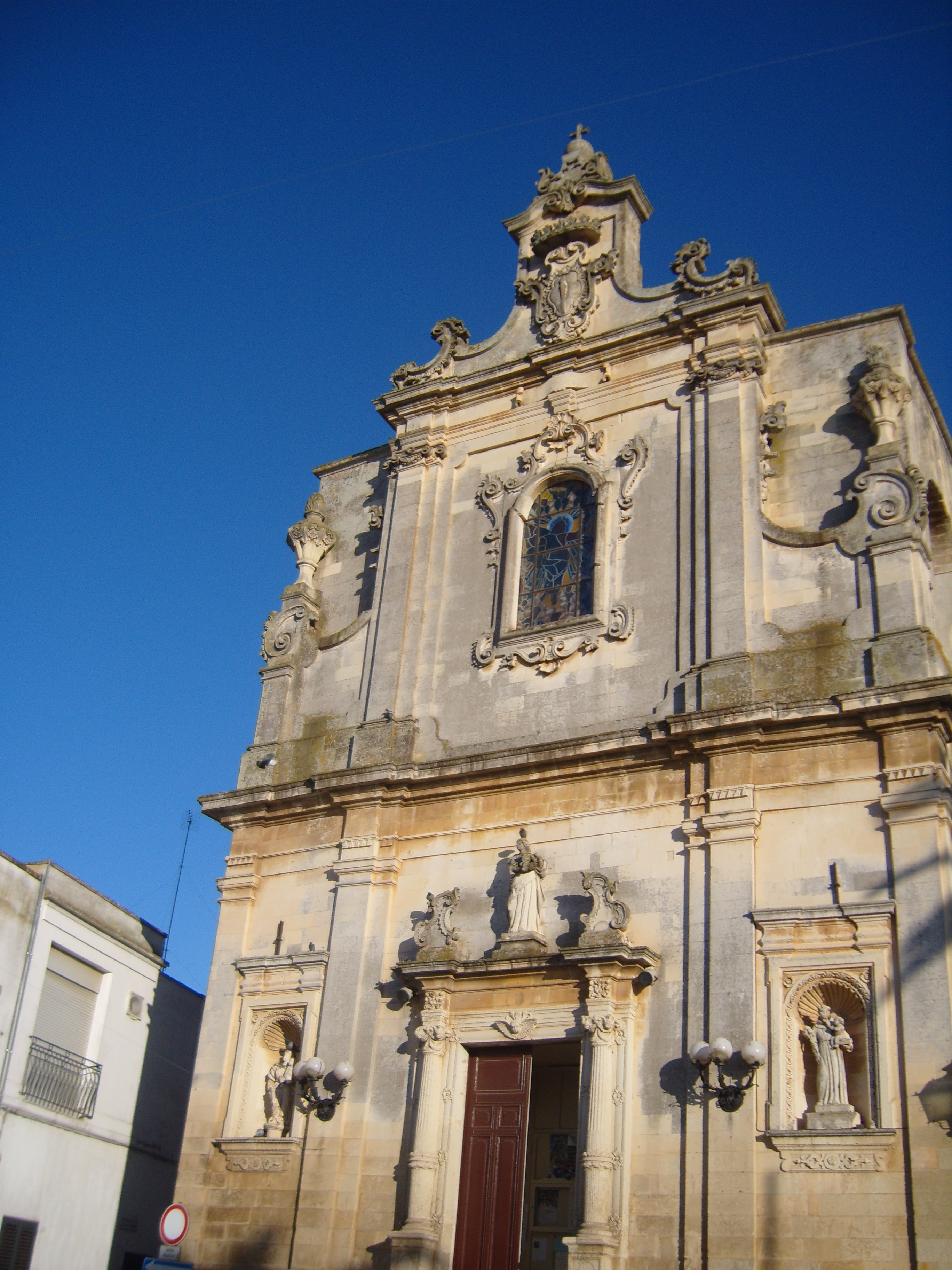 Church of Palmariggi, Province of Lecce, Italy